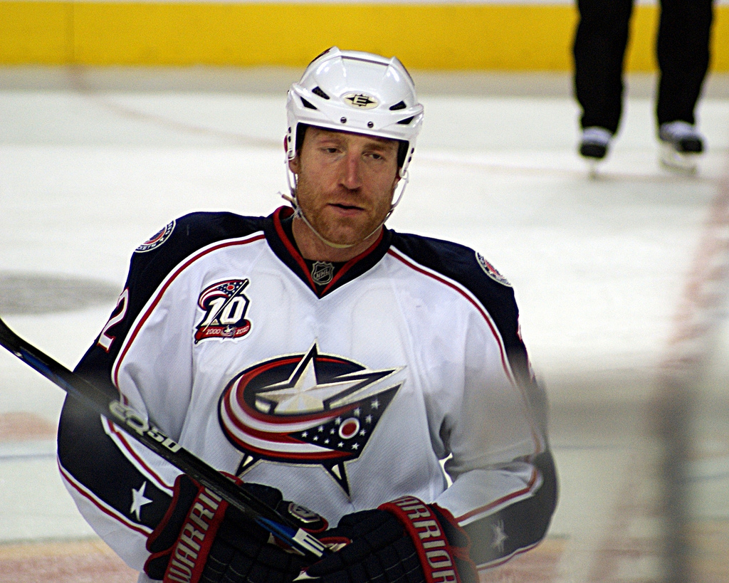 Michael Commodore, born November 7, 1979, in Fort Saskatchewan, Alberta, is a Canadian hockey player currently with the Columbus Blue Jackets of the National Hockey League. This NHL game action photo was taken December 13, 2010 at the Scotiabank Saddledome in Calgary, Alberta.